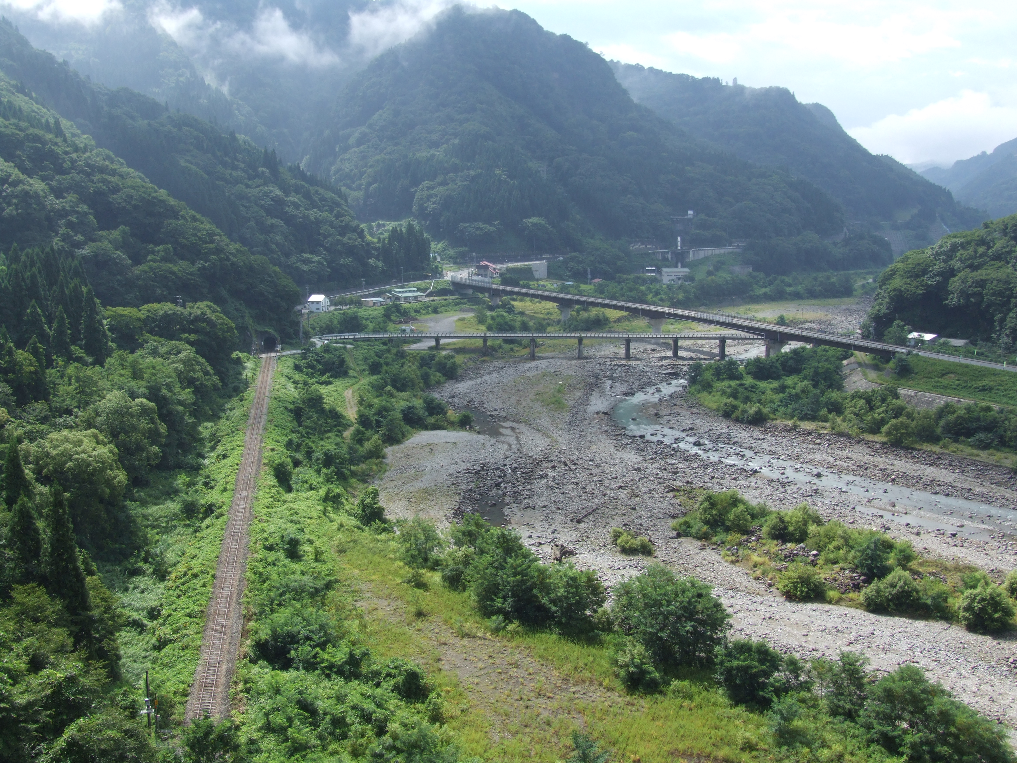 Bird's eye view of Kita-Otari Station and Hime River